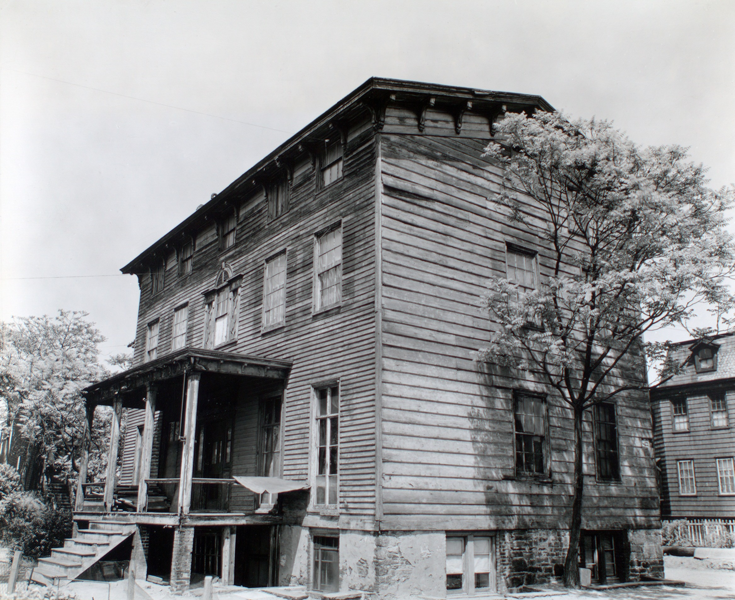 Code: I.A.2. Large wood frame house on stone foundation, porch supported by piers of bricks. Citation/Reference: CNY# 242